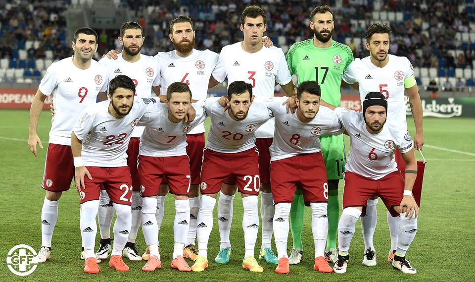 This is Georgian's foto